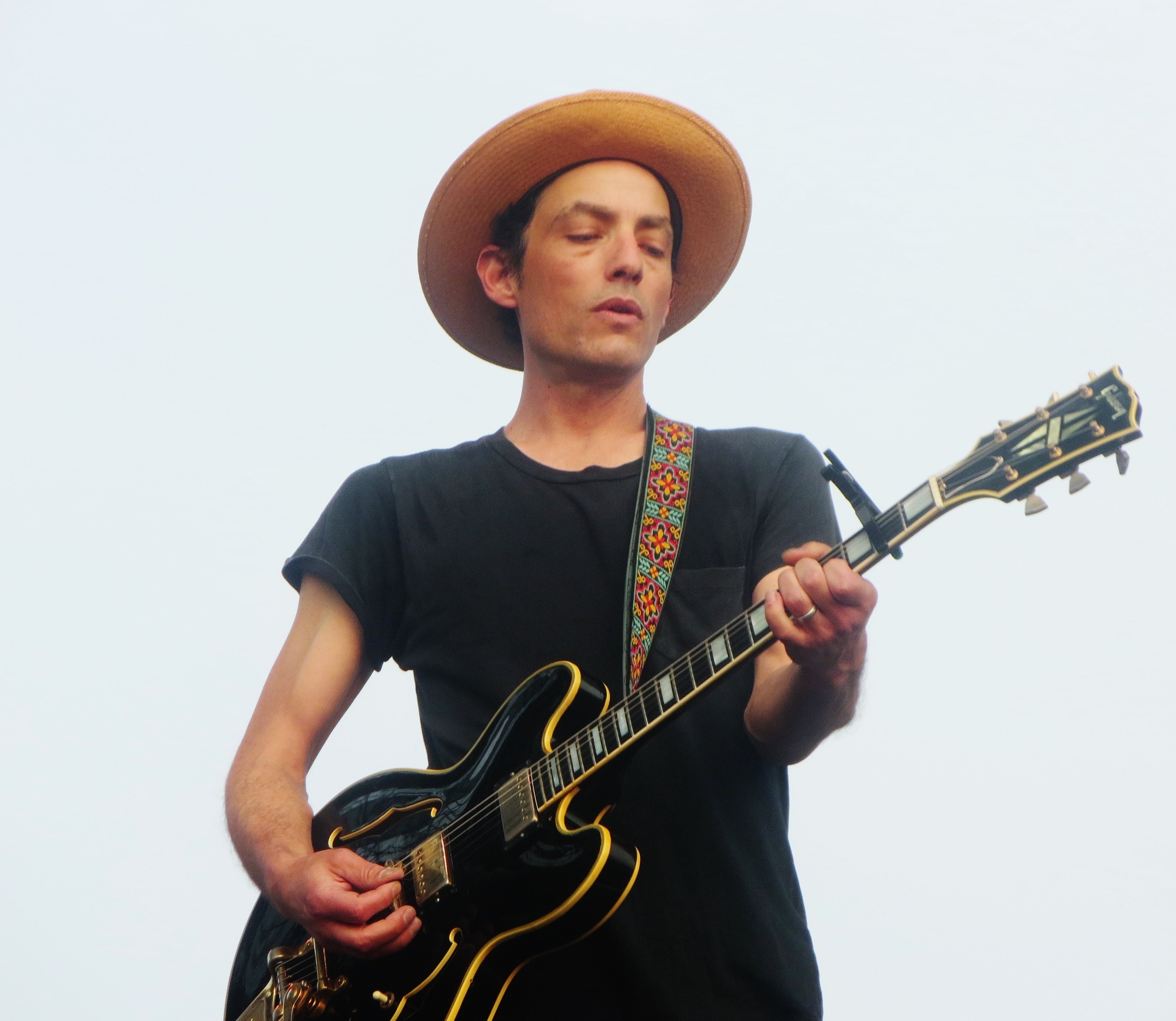 Jakob Dylan performs with The Wallflowers in 2014